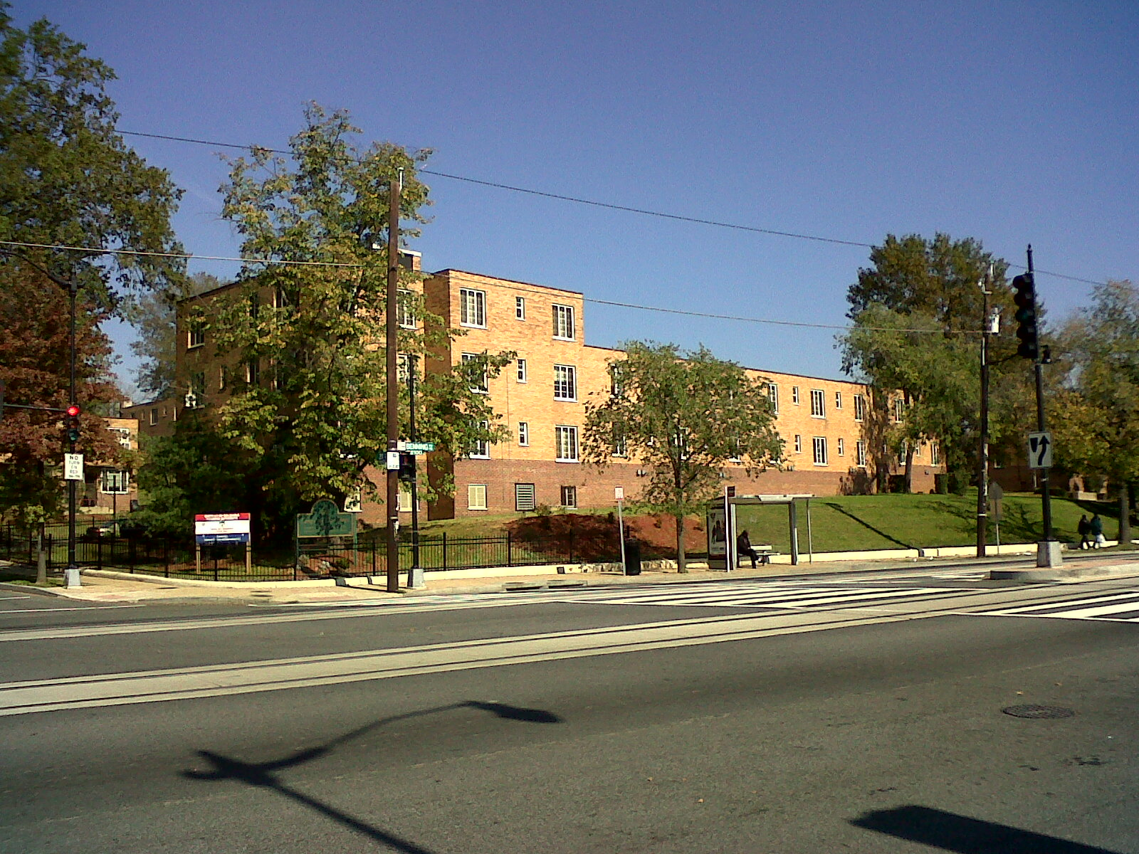 The Langston Dwellings is an apartment complex located in NE, Washington, DC. It is listed on the National Register of Historic Places.